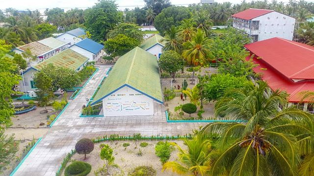 Seenu Atoll Madharusa Front